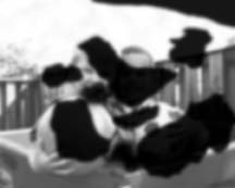 human eyesight two children and ball with diabetic retinopathy Copyright: public domain, US gov.[1] Credit of NIH National Eye Institute requested. Source: [2] Part of a set of eye pictures: Image:Human eyesight two children and ball normal vision.jpg Image:Human eyesight two children and ball with age-related macular degeneration.jpg Image:Human eyesight two children and ball with cataract.jpg Image:Human eyesight two children and ball with diabetic retinopathy.jpg Image:Human eyesight two children and ball with glaucoma.jpg Other NEI NIH images